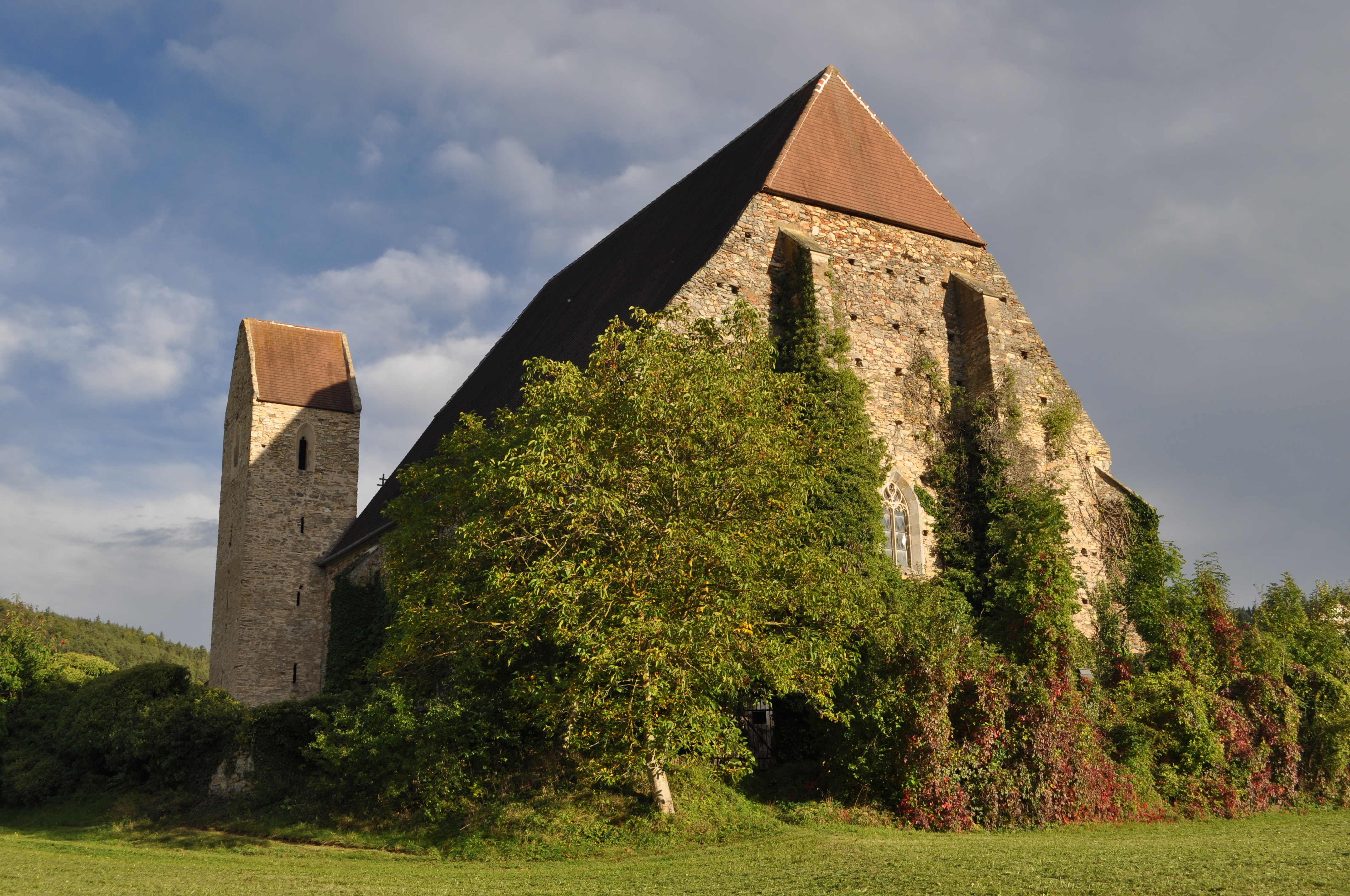 Branch Church of St. Anna im Felde at Pöggstall, District Melk, Lower Austria